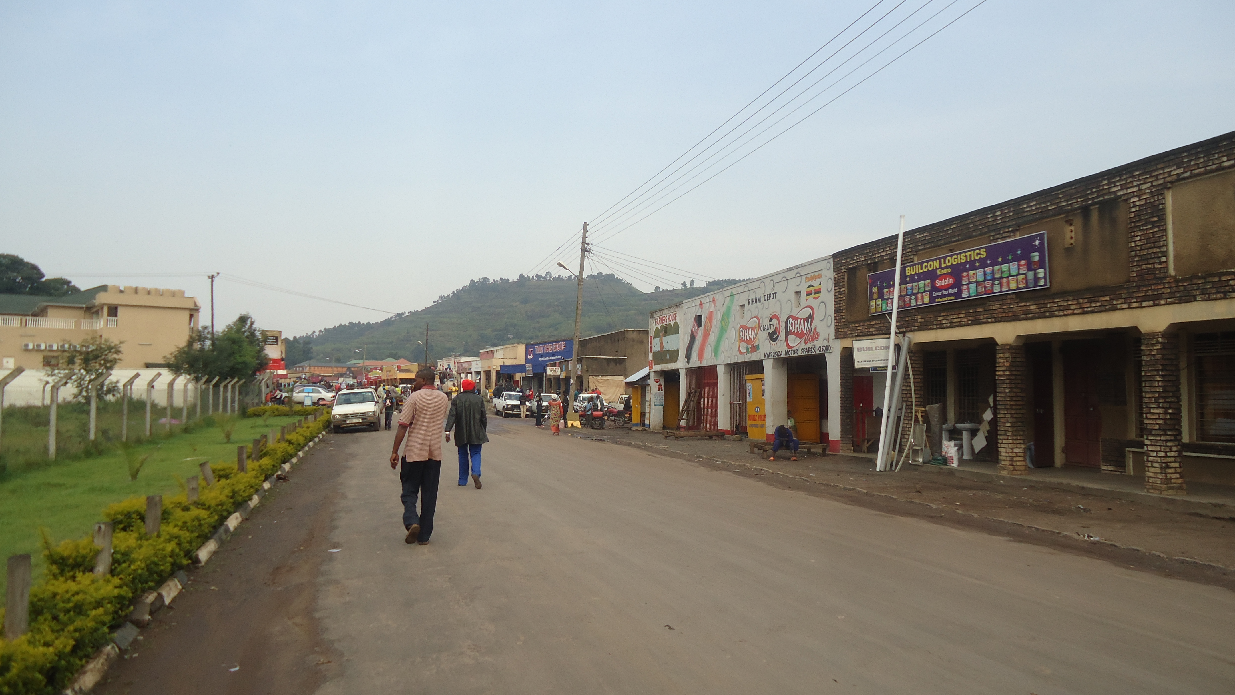 A street in Kisoro town